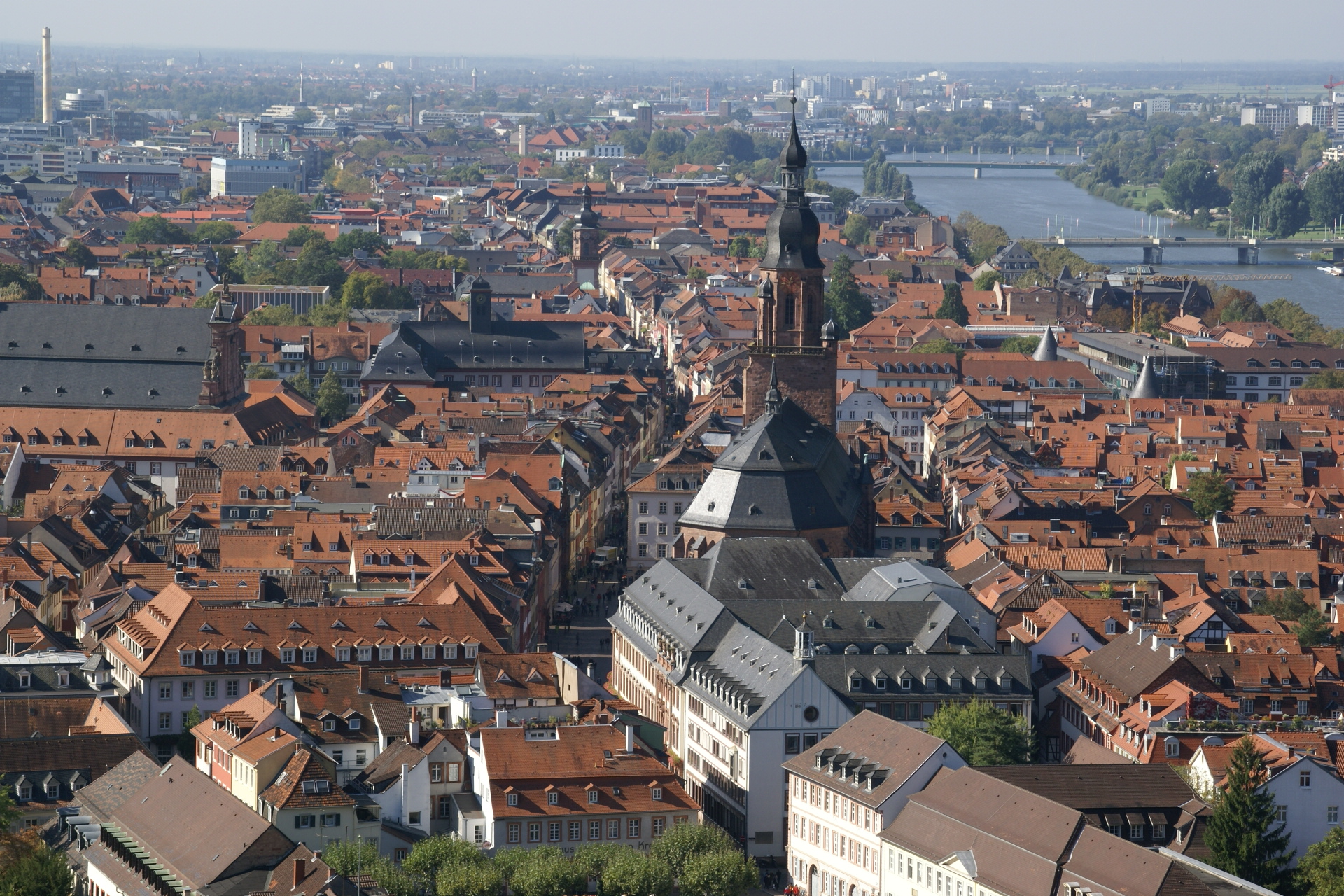 View of the city of Heidelberg, Germany, descending from the Castle Gardens. At the middle the Hauptstraße (Main Street) is clearly visible.